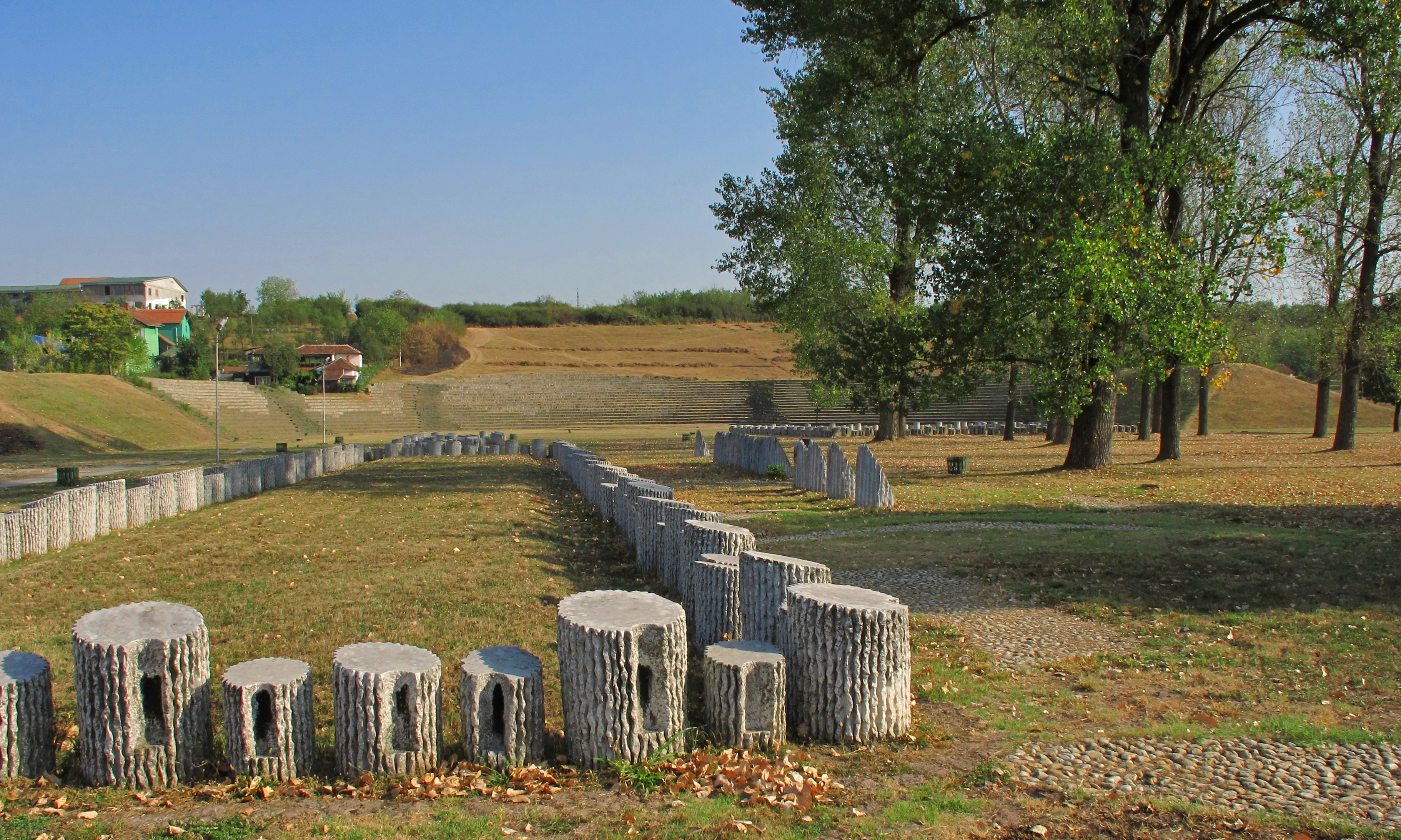 Memorial cemetery of the 1941 German massacre victims in Kraljevo.